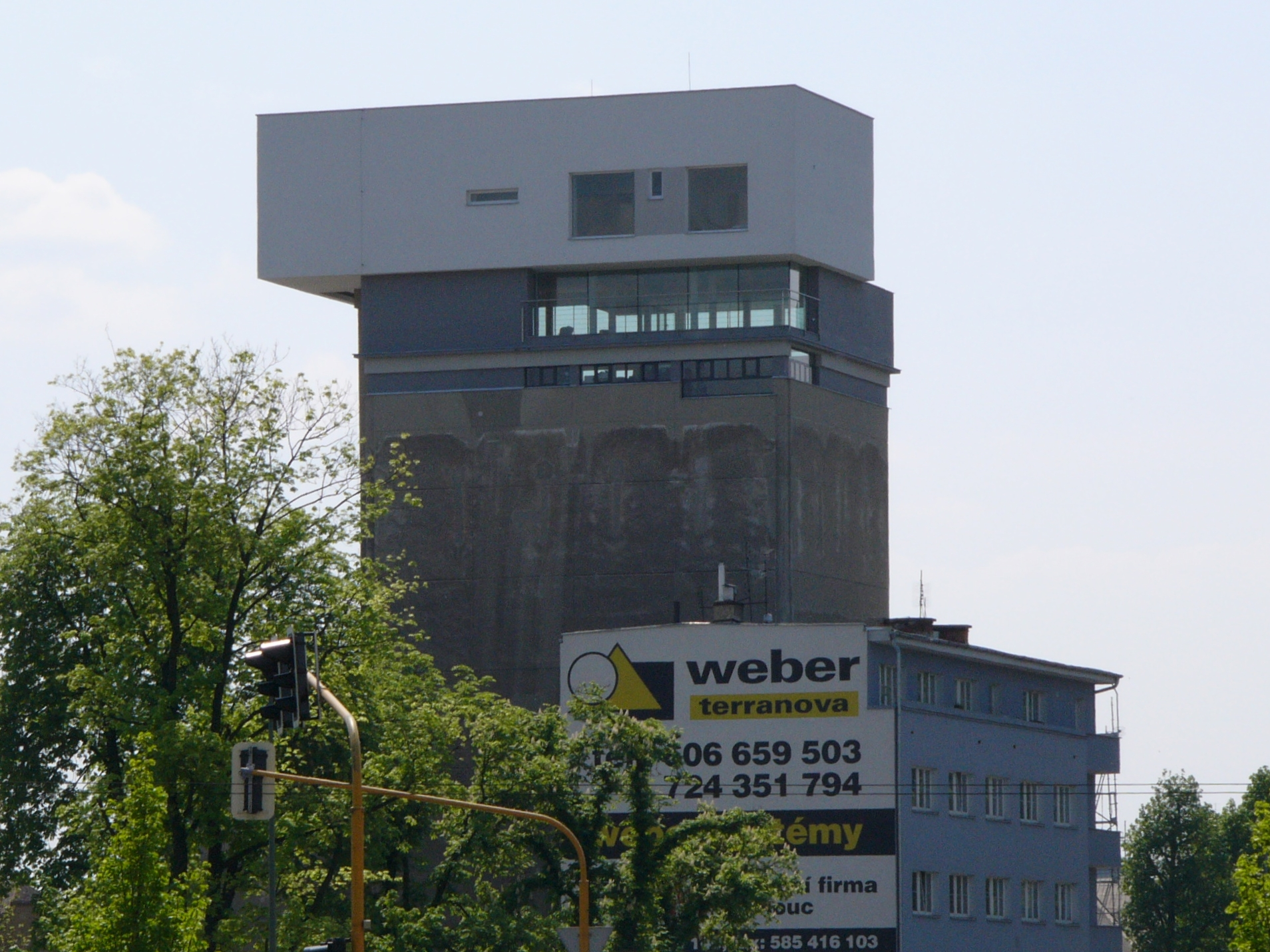 Vila (at tower) at 7 Polská street in Olomouc (Czech Republic).